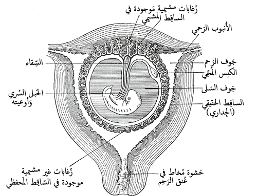 Sectional plan of the gravid uterus in the third and fourth month. (Modified from Wagner.)